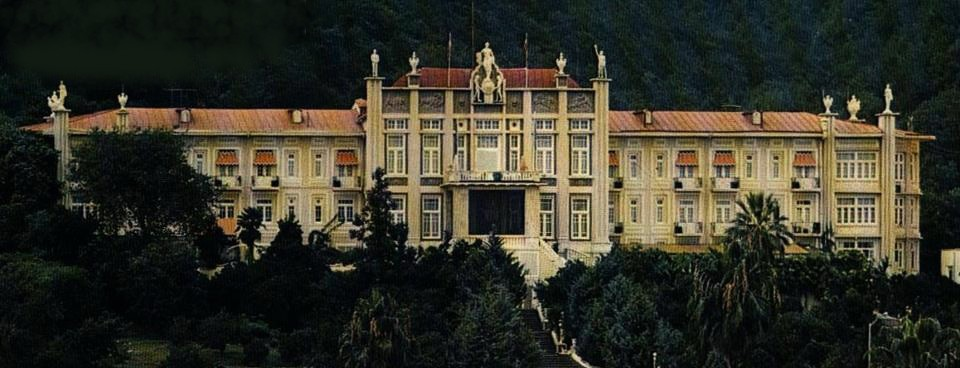 The old Hotel, Ramsar-Before Iranian 1979 revolution - PD-iran (Photographic work After 30 years)